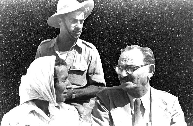 Joseph Weitz. 1948